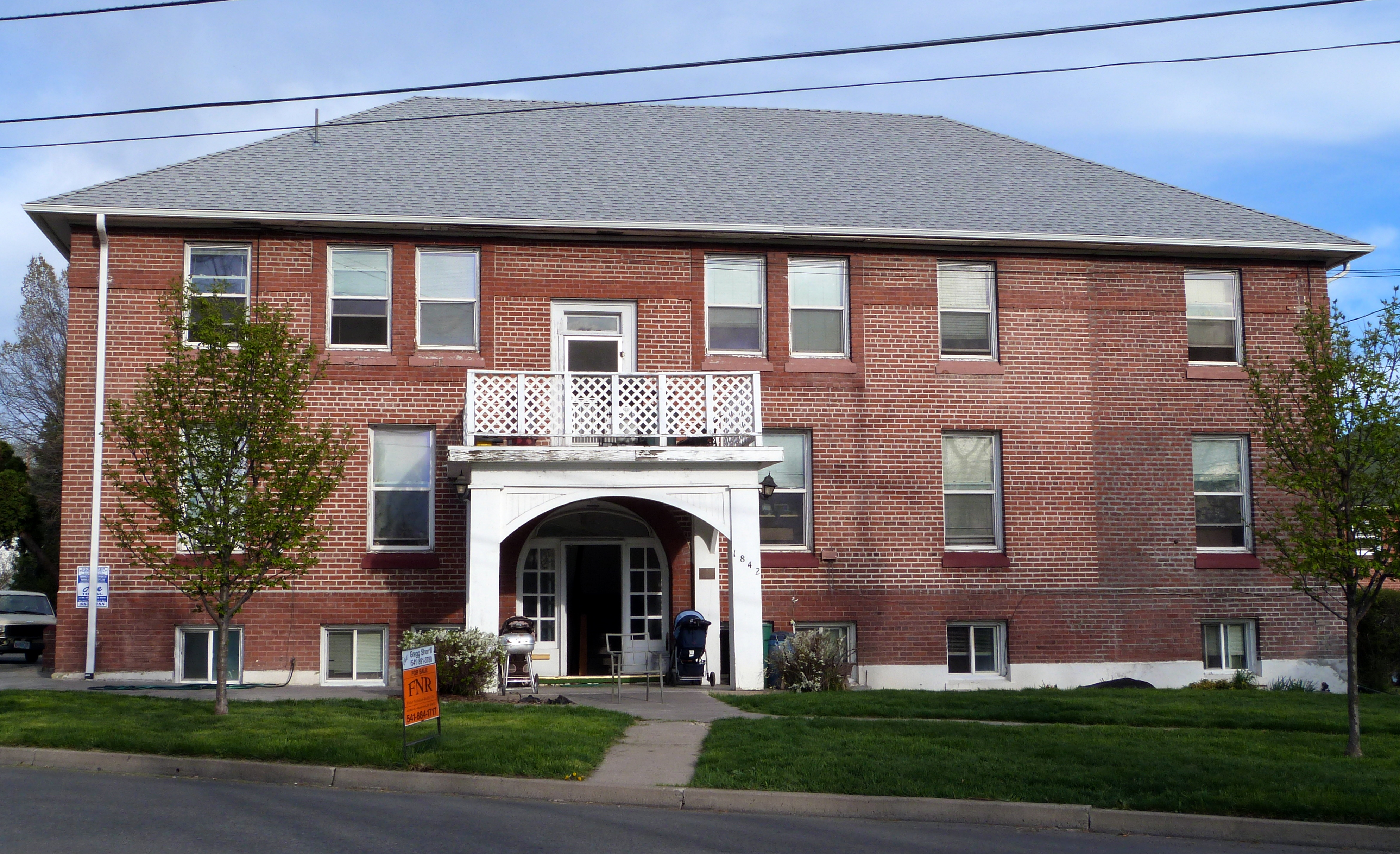 The historic Blackburn Sanitarium (built 1911), located at 1842 Esplanade Avenue in Klamath Falls, Oregon, United States, is listed on the US National Register of Historic Places.